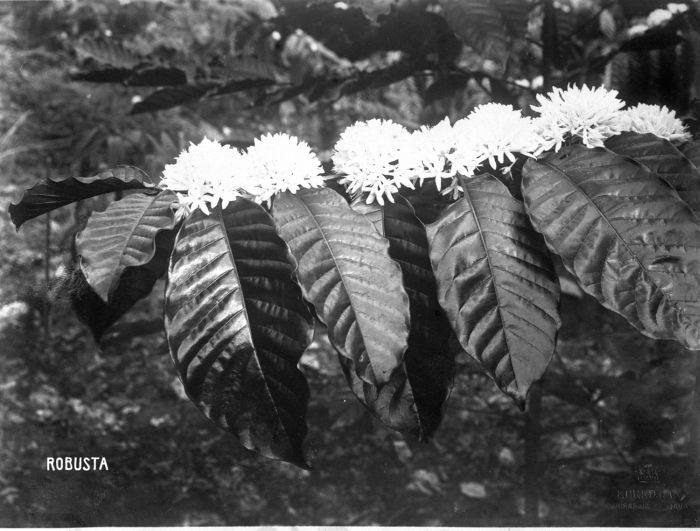 The flowers of the Robusta coffee tree.